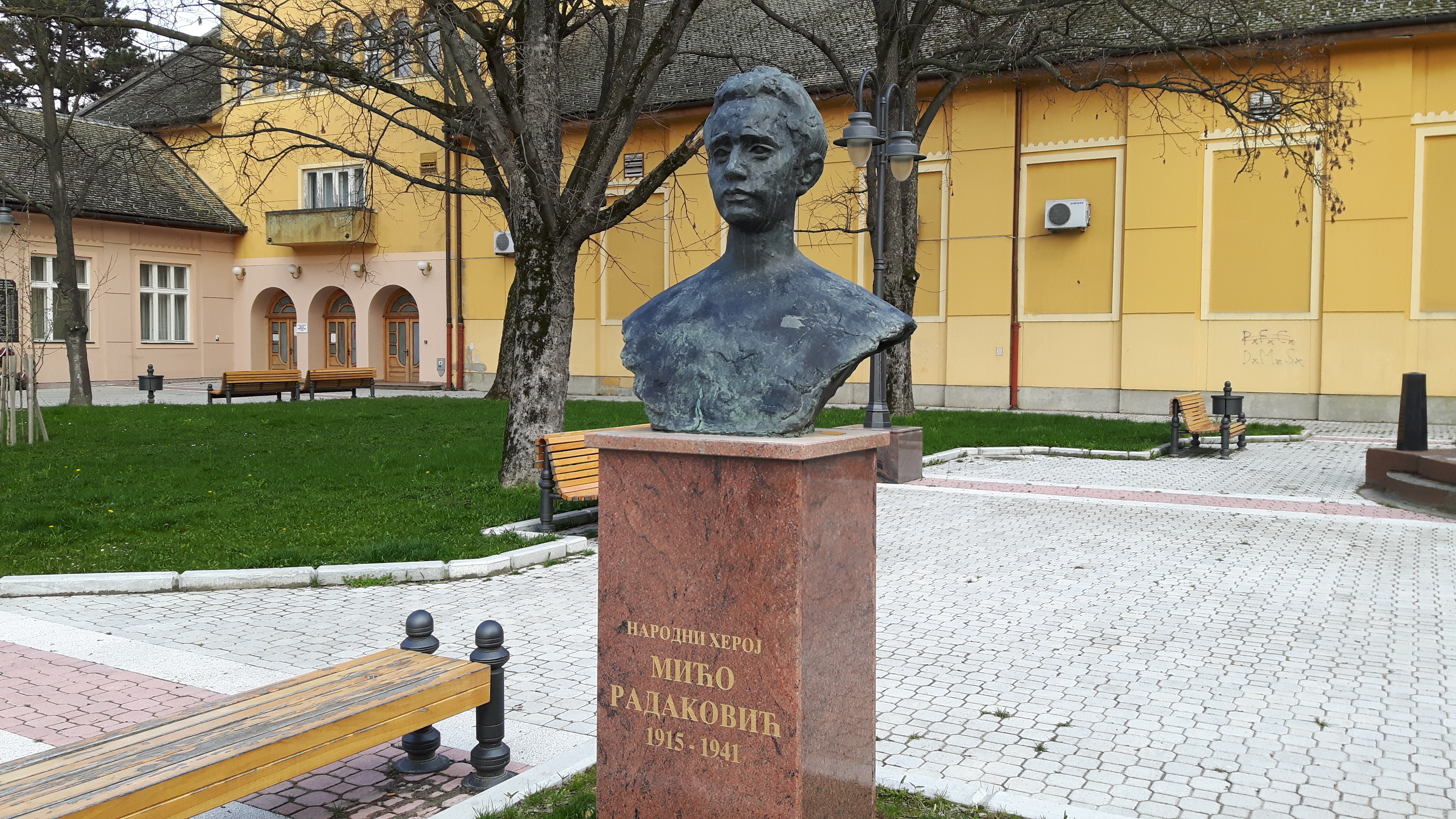 Bust of the People's hero of Yugoslavia, Mićo Radaković (1915-1941), Apatin.